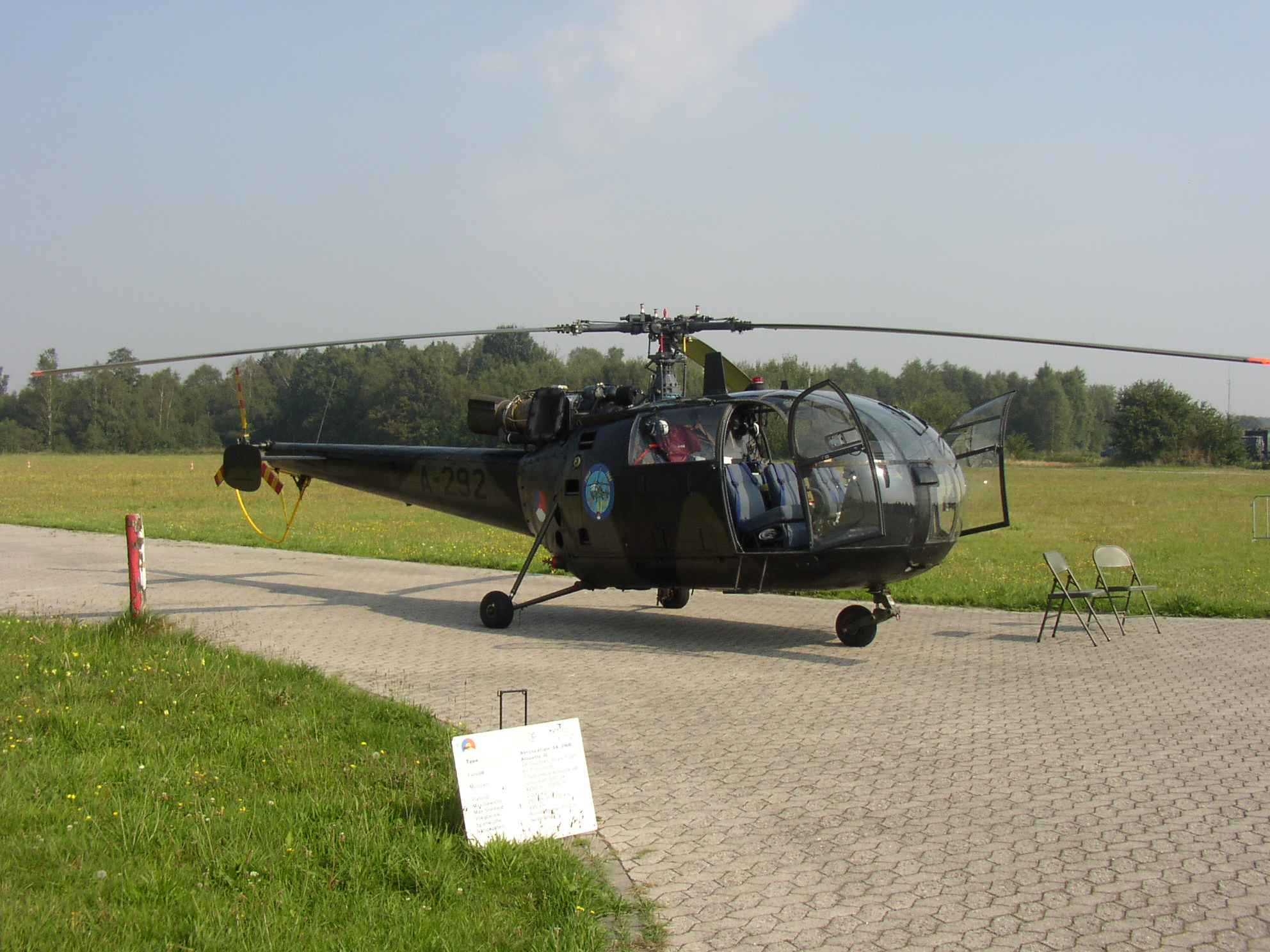 Alouette III SA 316B helicopter of the Royal Netherlands Air Force, at Vredepeel